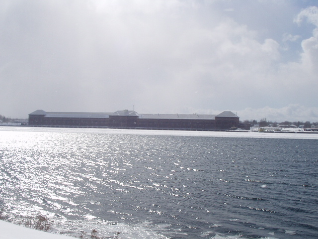 Hydro plant in Michigan, USA